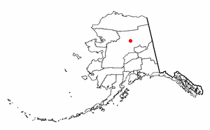 Adapted from Wikipedia's AK borough maps by Seth Ilys.